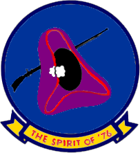 Insignia of the U.S. Navy Attack Squadron 76 (VA-76) "Spirits". The insignia was approved by the Chief of Naval Operations on 26 March 1956.